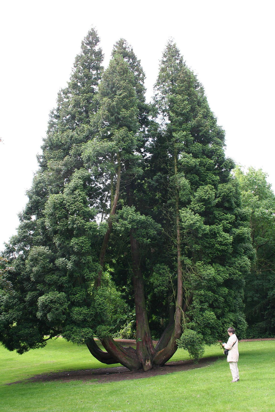 Western Redcedar.